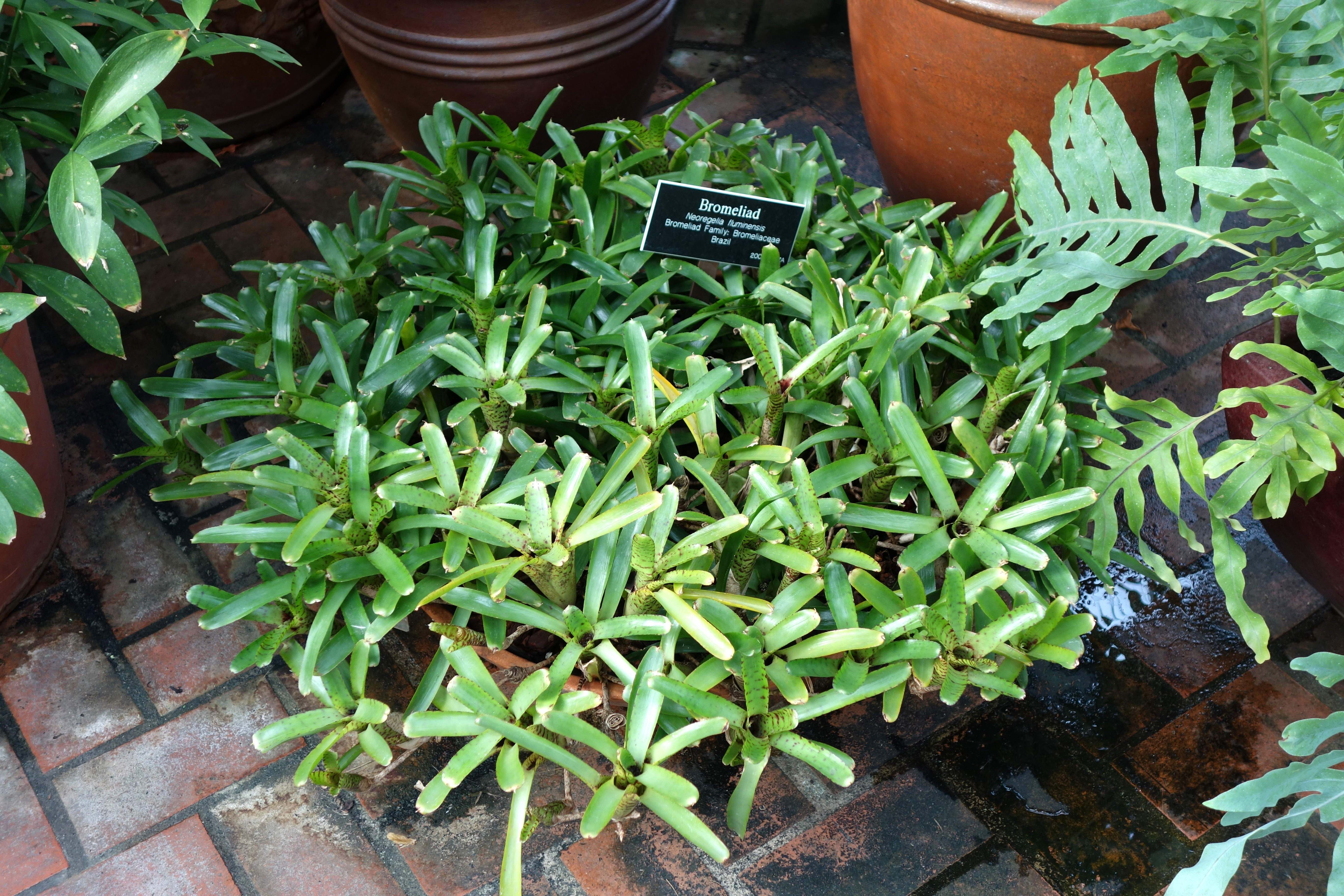 Botanical specimen in the Brooklyn Botanic Garden, Brooklyn, New York, USA.